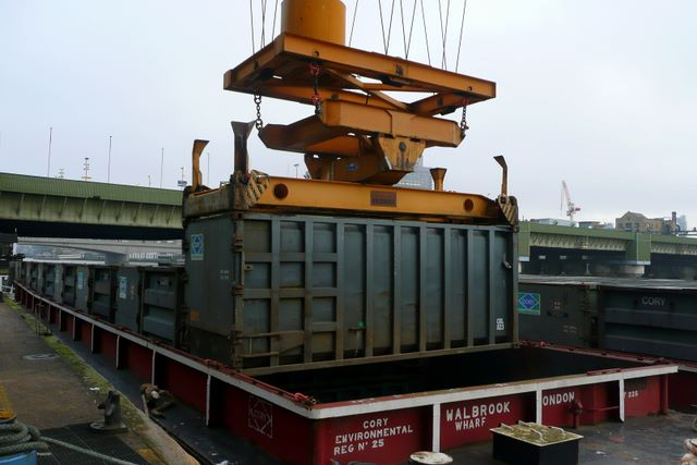 Cory Environmental There is a container terminal here, where containers of waste are loaded into barges for disposal. About 15% of London's waste is sent from here by river to the Mucking Marshes Landfill site on the Thames Estuary, saving about 100,000 lorry movements a year. Here, a container is being loaded. The crane operator was remarkably accurate; years of practice or a guidance system? Beyond is Southwark bridge.